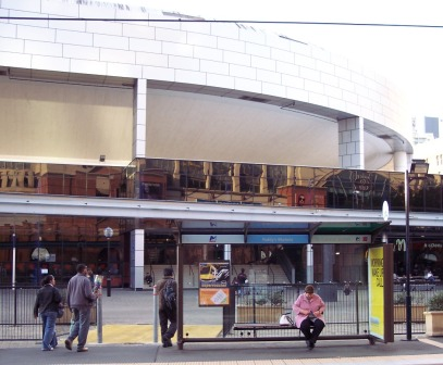 Sydney Entertinment Centre.